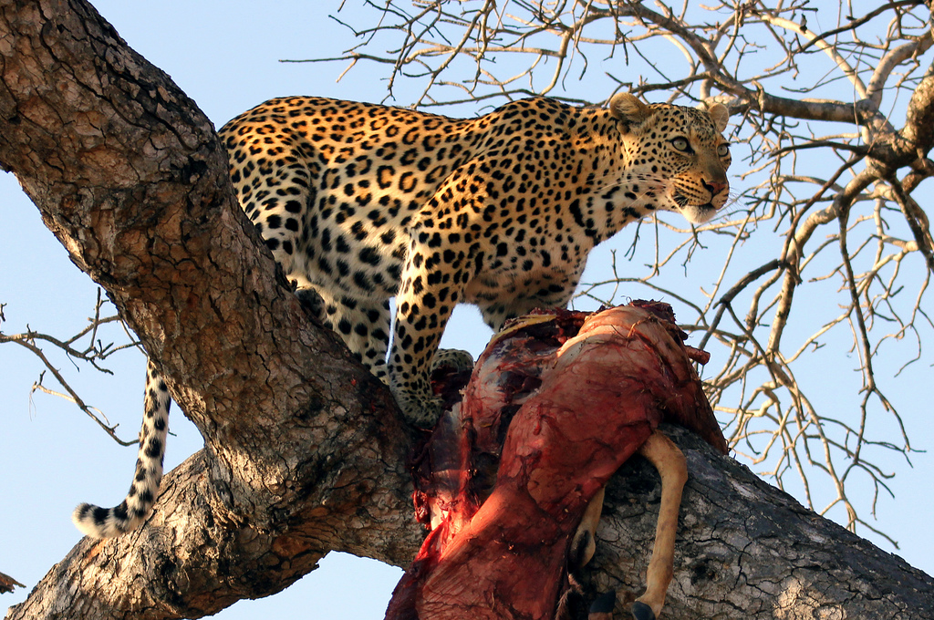 A Leopard in Ngala Game Reserve, Limpopo, South Africa. It has a kill that it has taken up a tree.